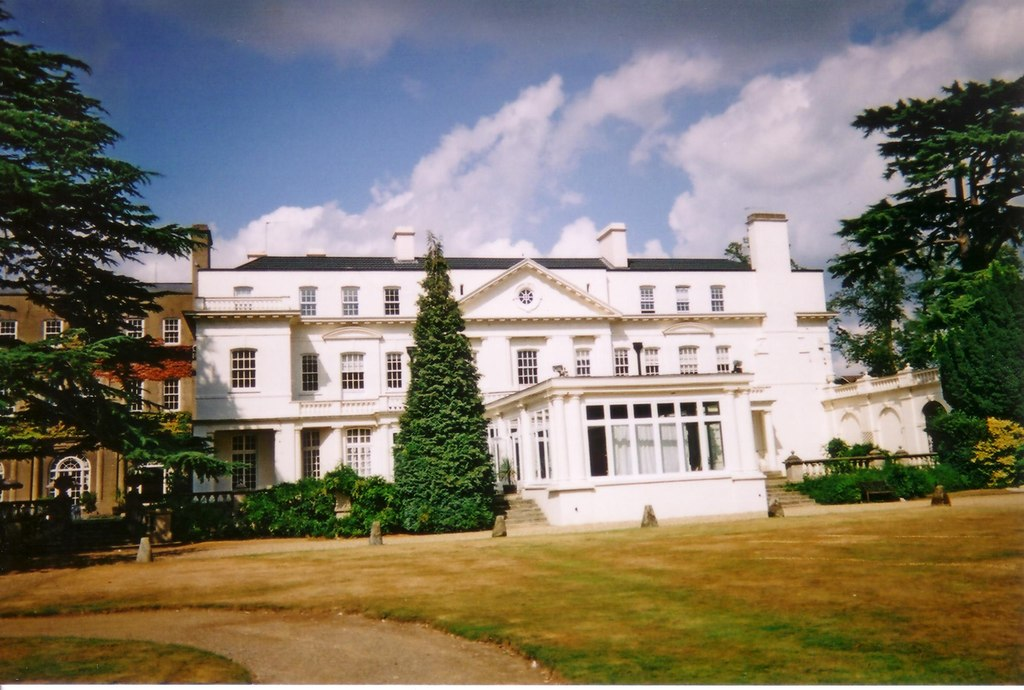 The fine country house of Heatherden Hall at Pinewood film studios is now used as a wedding venue. The balustrades are made by James Pulham and Son.